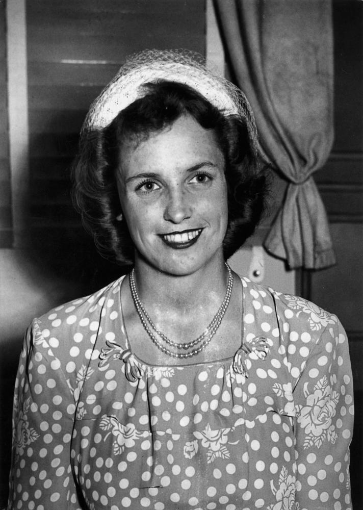 June Mahoney, Brisbane, 1949.